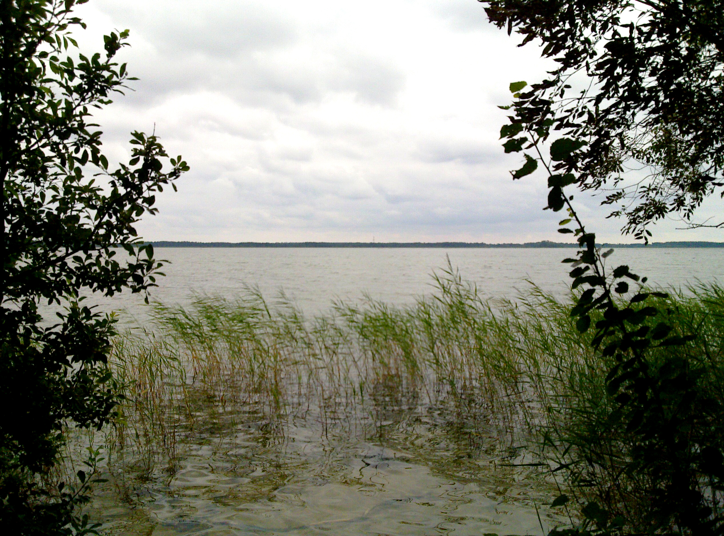 Tingstäde träsk, Gotland, Sweden